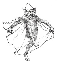 Goblin 19th illustration